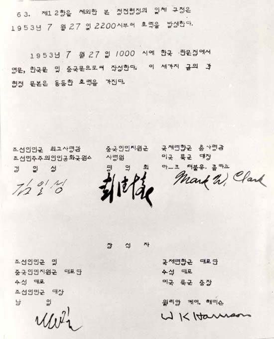 Korean Text of Korean Armistice Agreement